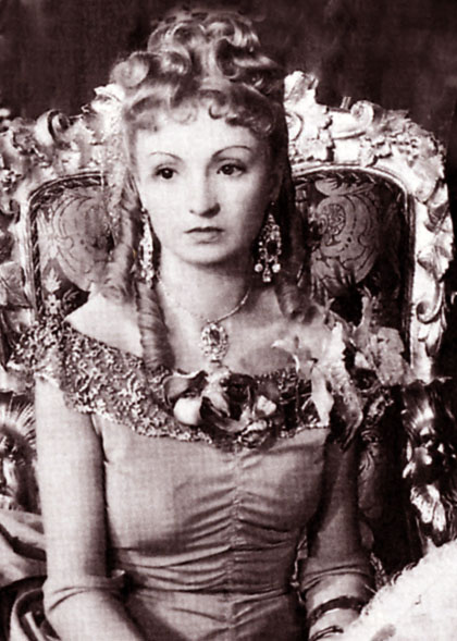 screenshot from the film Fedora (1942)